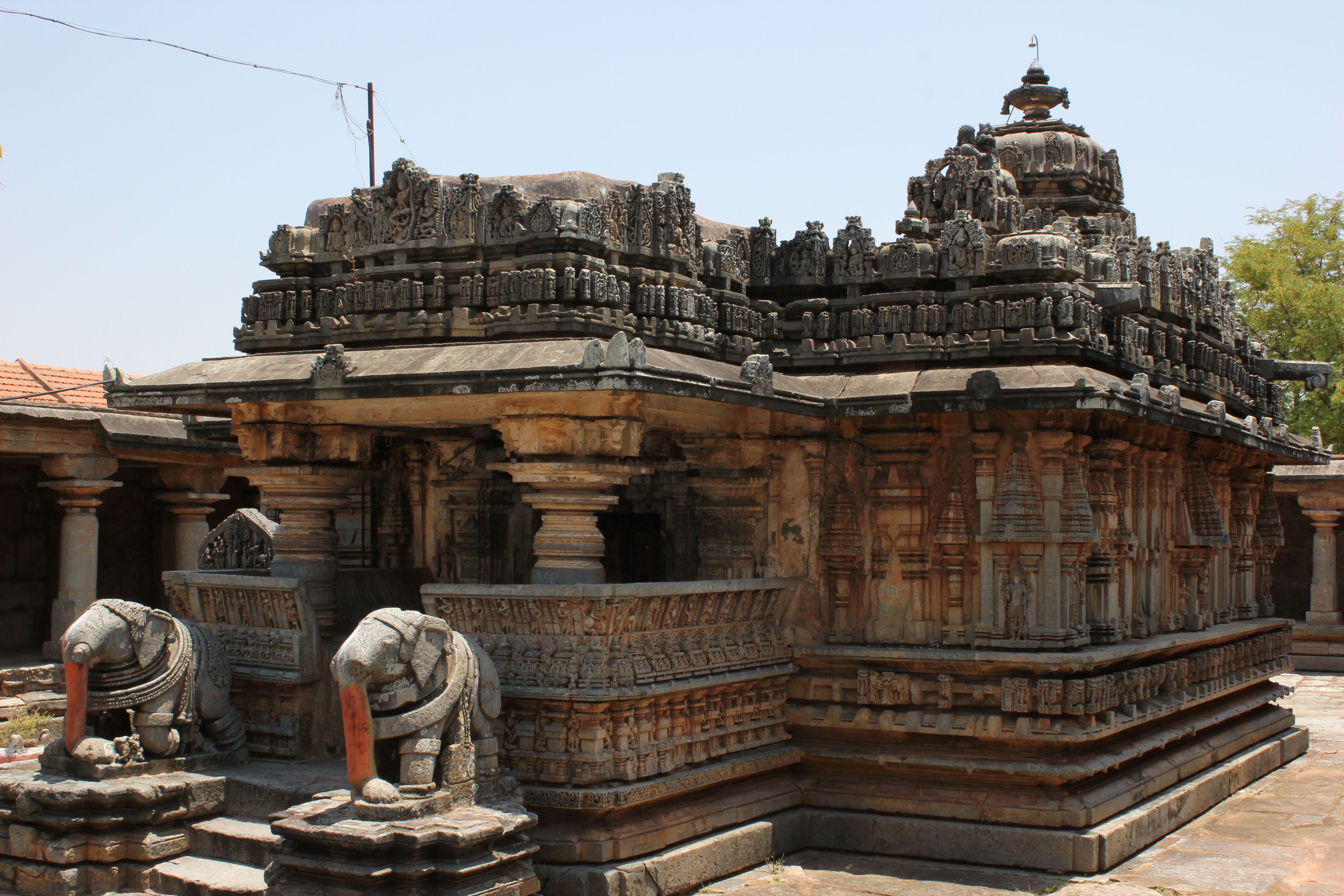 This photo was taken by me (Dinesh Kannambadi) at the Chennakeshava temple (also spelt Chennakesava) in Hullekere, Hassan district, Karnataka state, India. It was built in 1163 CE during the rule of the Hoysala Empire King Narasimha I